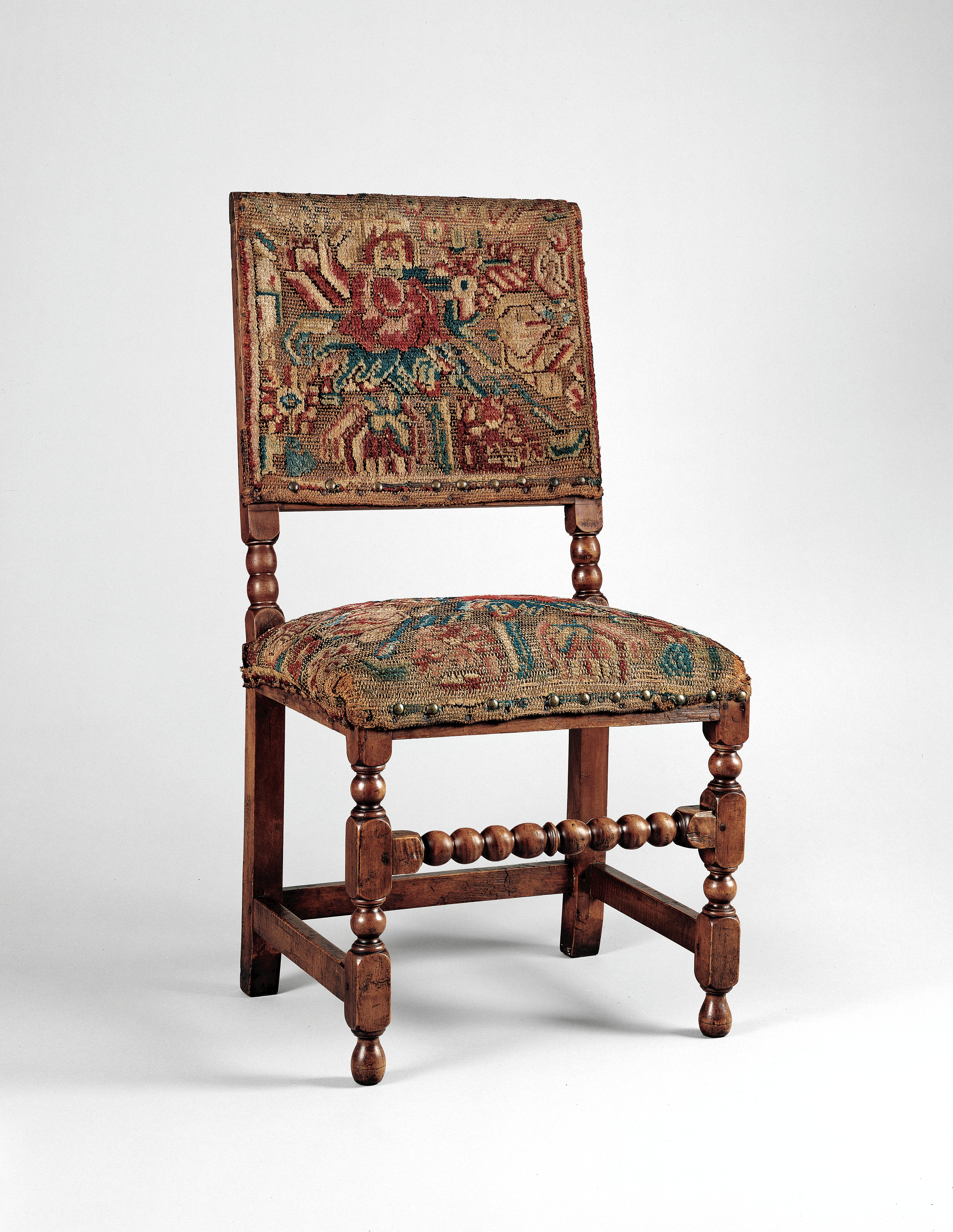 American; Side chair; Furniture